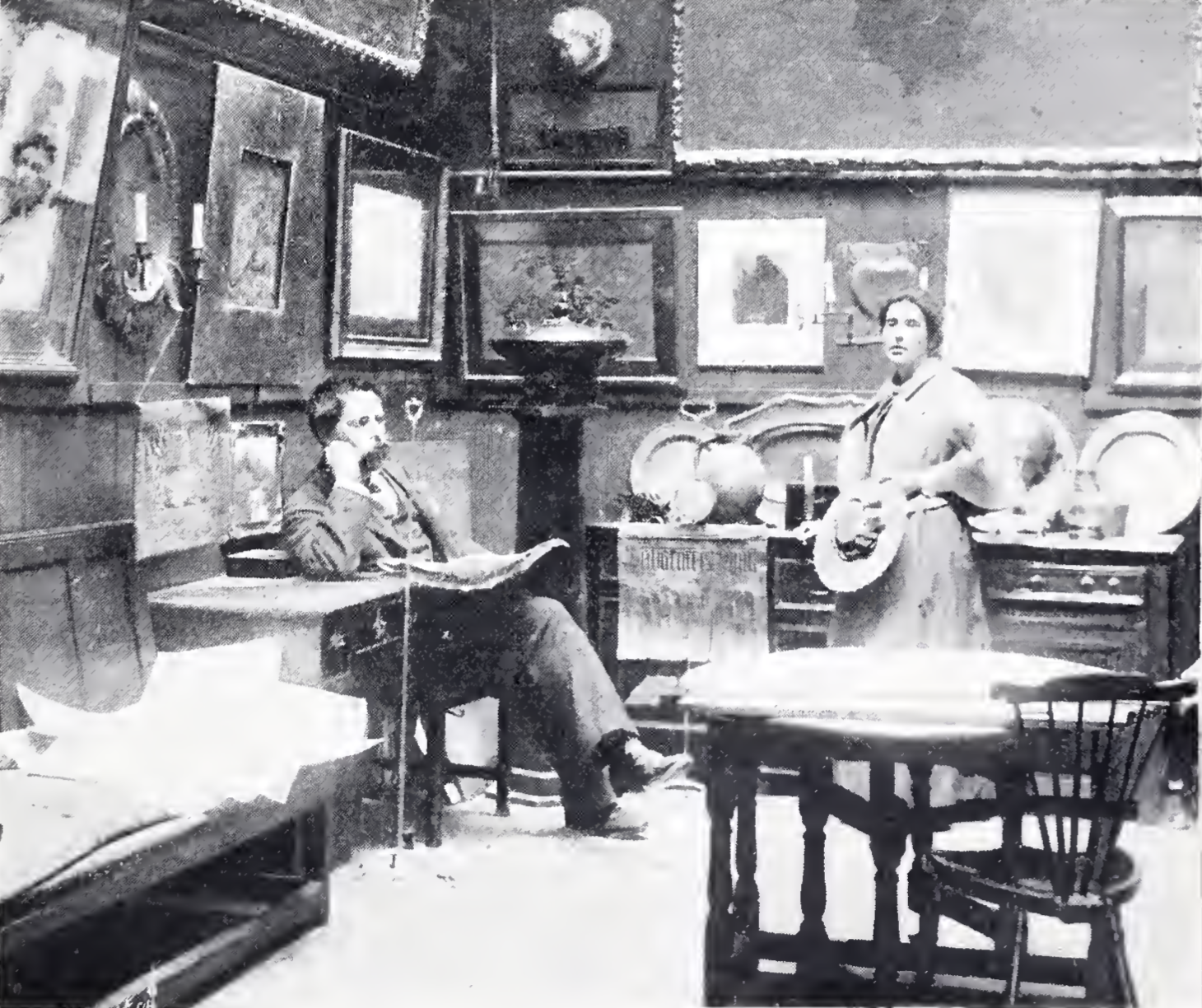 Nelson and Edith Dawson in their studio - photo circa or before 1896